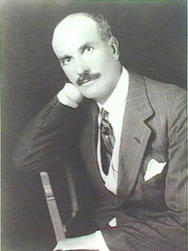 Lieutenant Colonel Sir William Ernest George Archibald Weigall, 1st Baronet KCMG (8 December 1874 – 3 June 1952) , c. 1922.